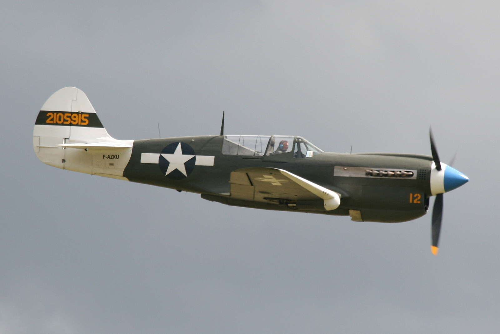 Curtiss P-40N Warhawk "Little Jeanne" at the 2008 'Flying Legends' air show in Duxford, UK.